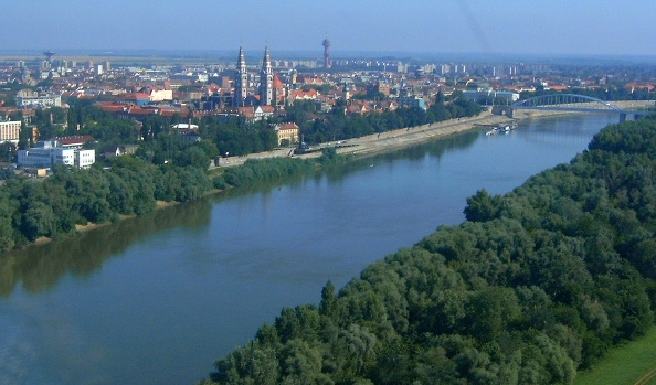 Tisza river in Szeged, Hungary